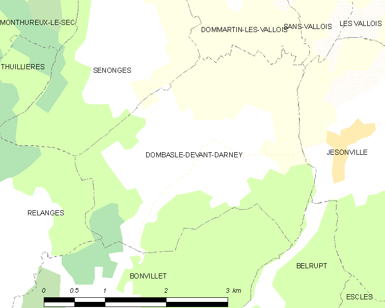 Map of French municipality Dombasle-devant-Darney